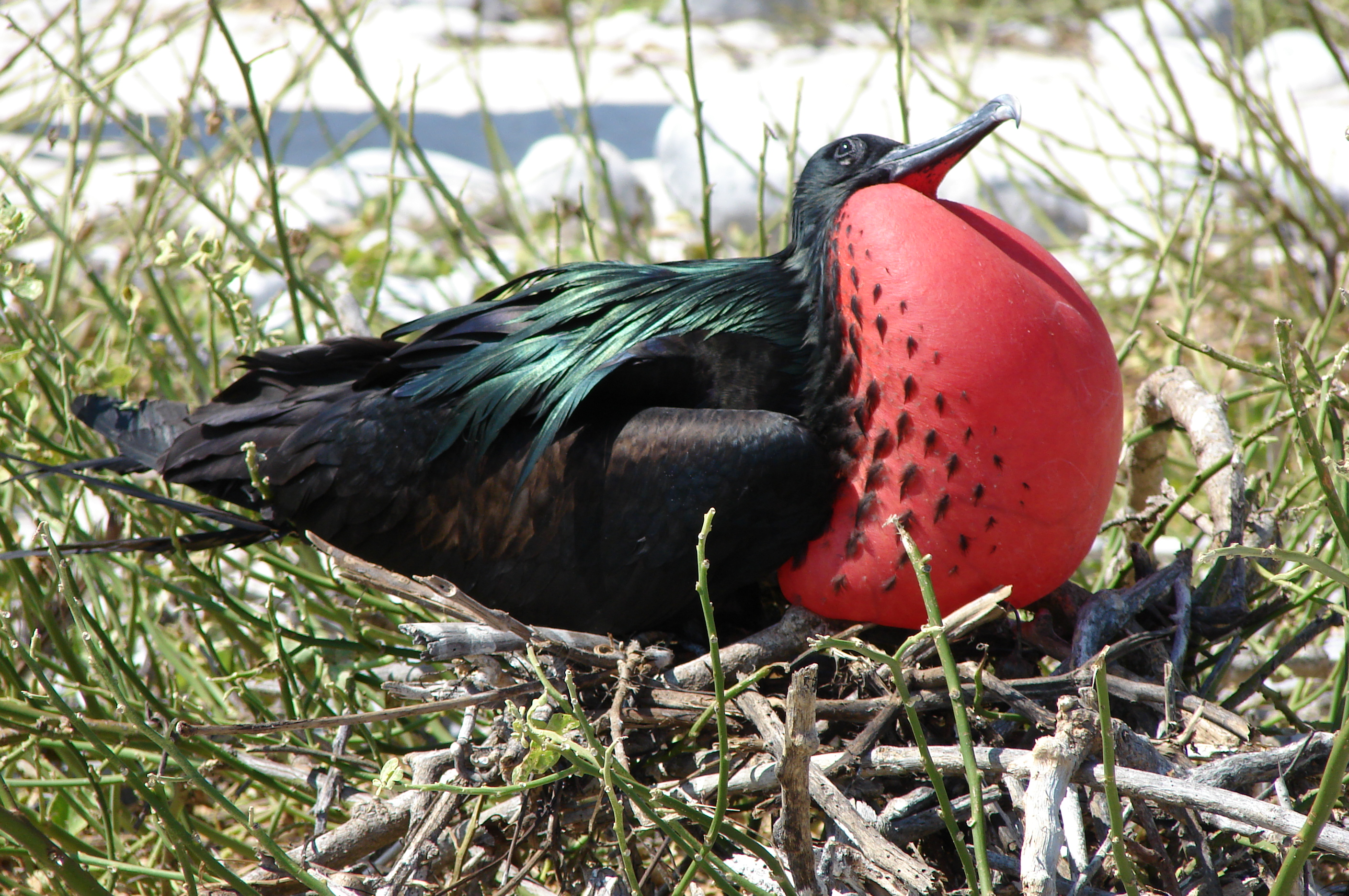 Male Great Frigatebird nesting on Genvoesa in the Galapagos